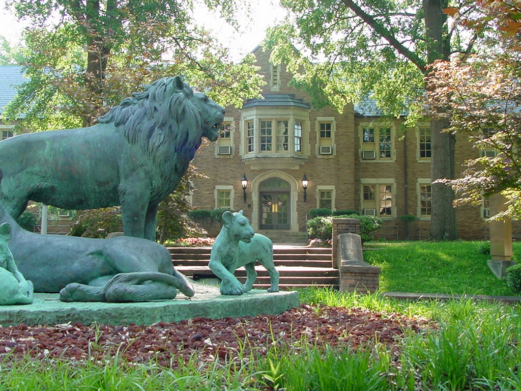 Garden sculptures at Willingham Hall — on the University of North Alabama campus in Florence, Alabama. Taken by me, May 22, 2007.